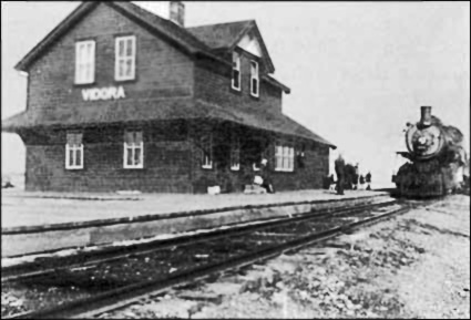 Vidora CPR Train station 1900's.